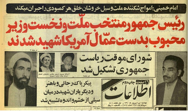 Front page of Ettelaat - Bombing in Tehran